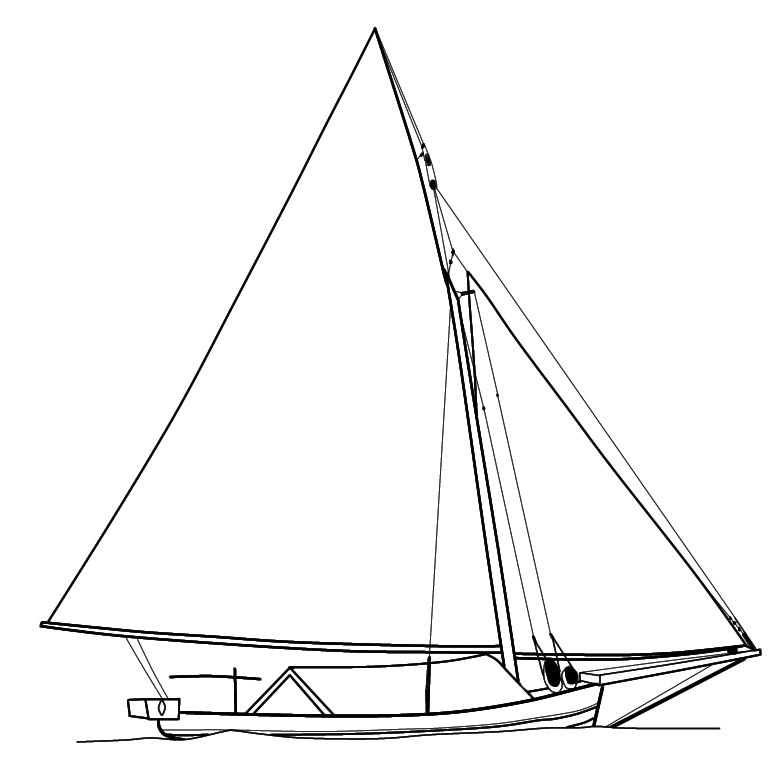 A 2D drawing of Hati Dahalia, a Buton lambo from Jinato. She was built in 1990. This picture is a tracing of a photo by Nick Burningham, who encountered the vessel in 1990.